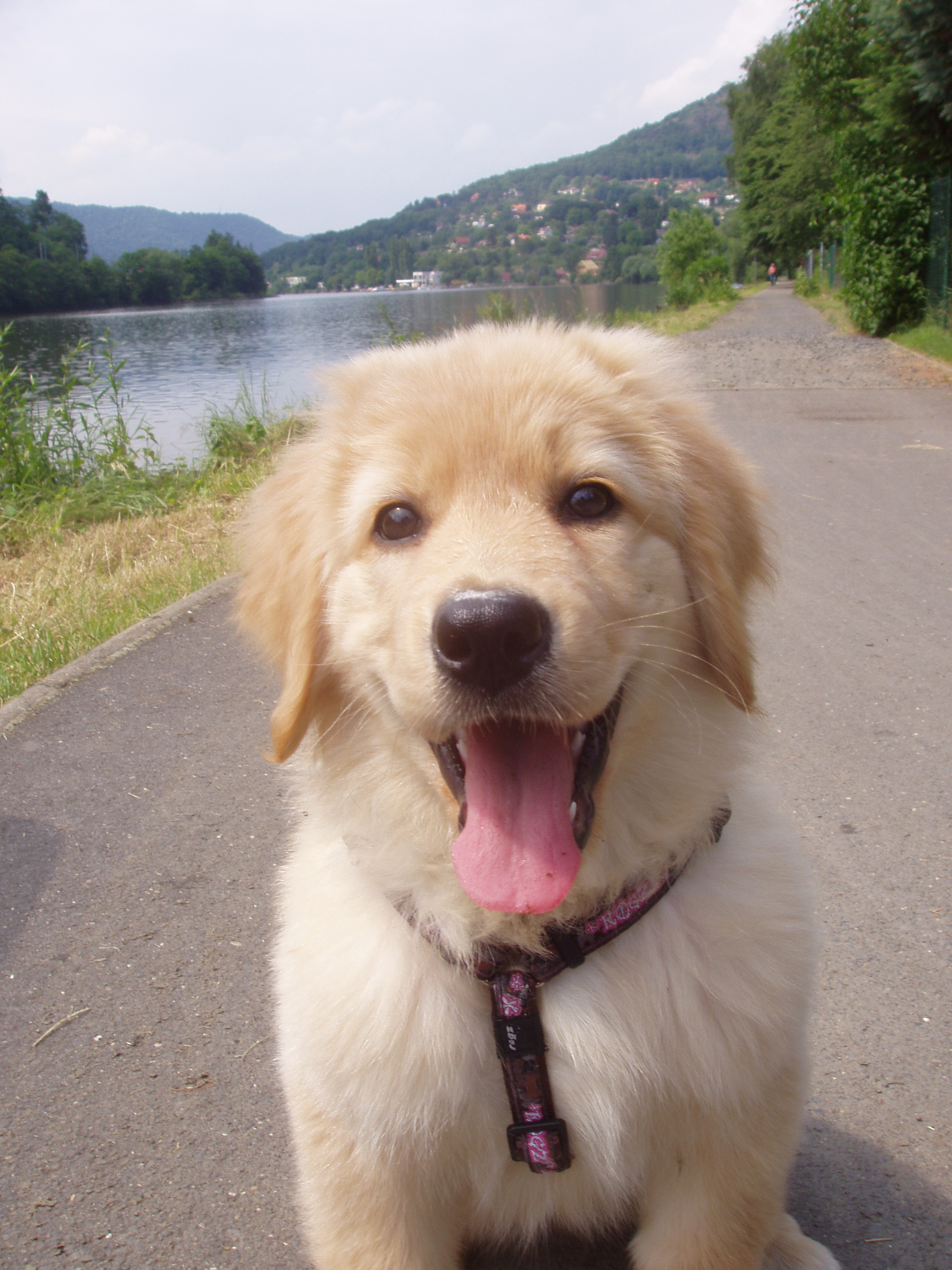 Hovawart puppy female (9 and 1/2 week)